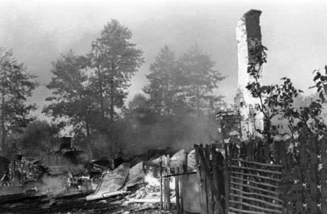 Kampinos Regiment during Warsaw Uprising: Burned ruins of village of Wiersze after bombing raid by German planes on September 27, 1944.